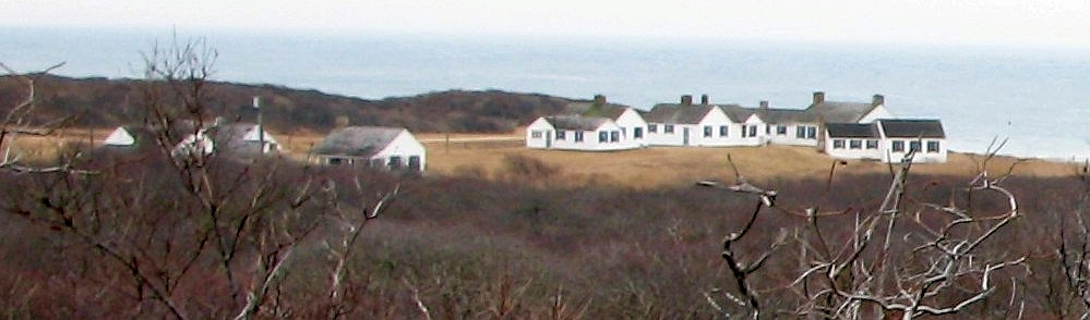 Eothen complex in Montauk once owned by Andy Warhol where Mick Jagger began writing Memory Motel.